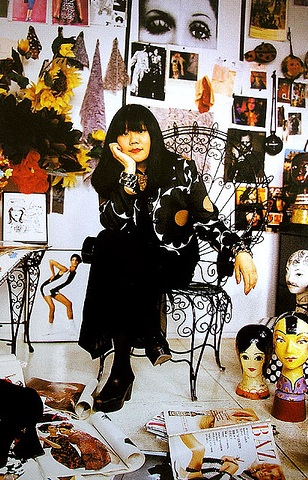 Anna Sui at her New York City office.